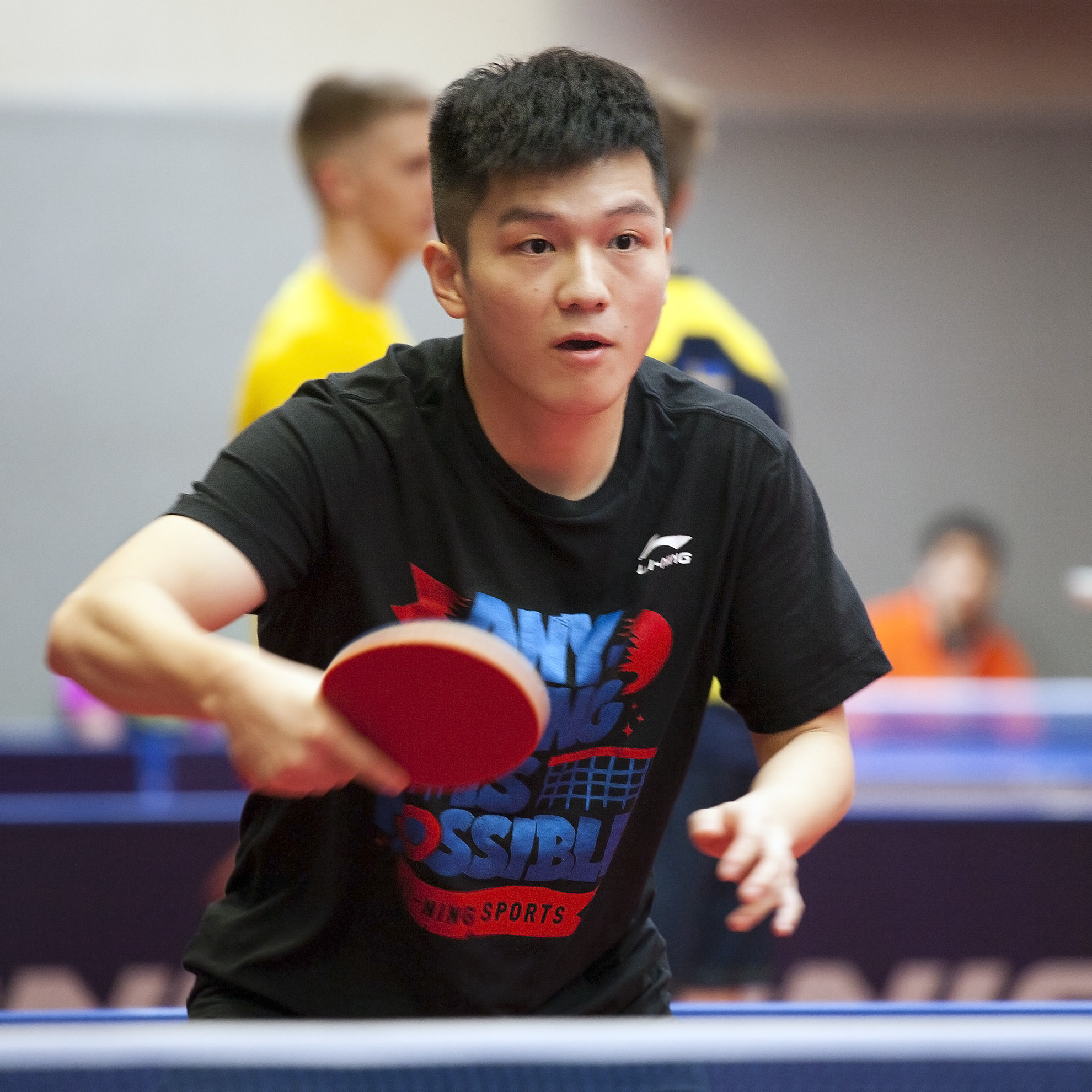 ITTF World Tour 2017 German Open, Magdeburg, Germany, 7 Nov 2017 - 12 Nov 2017, Fan Zhendong